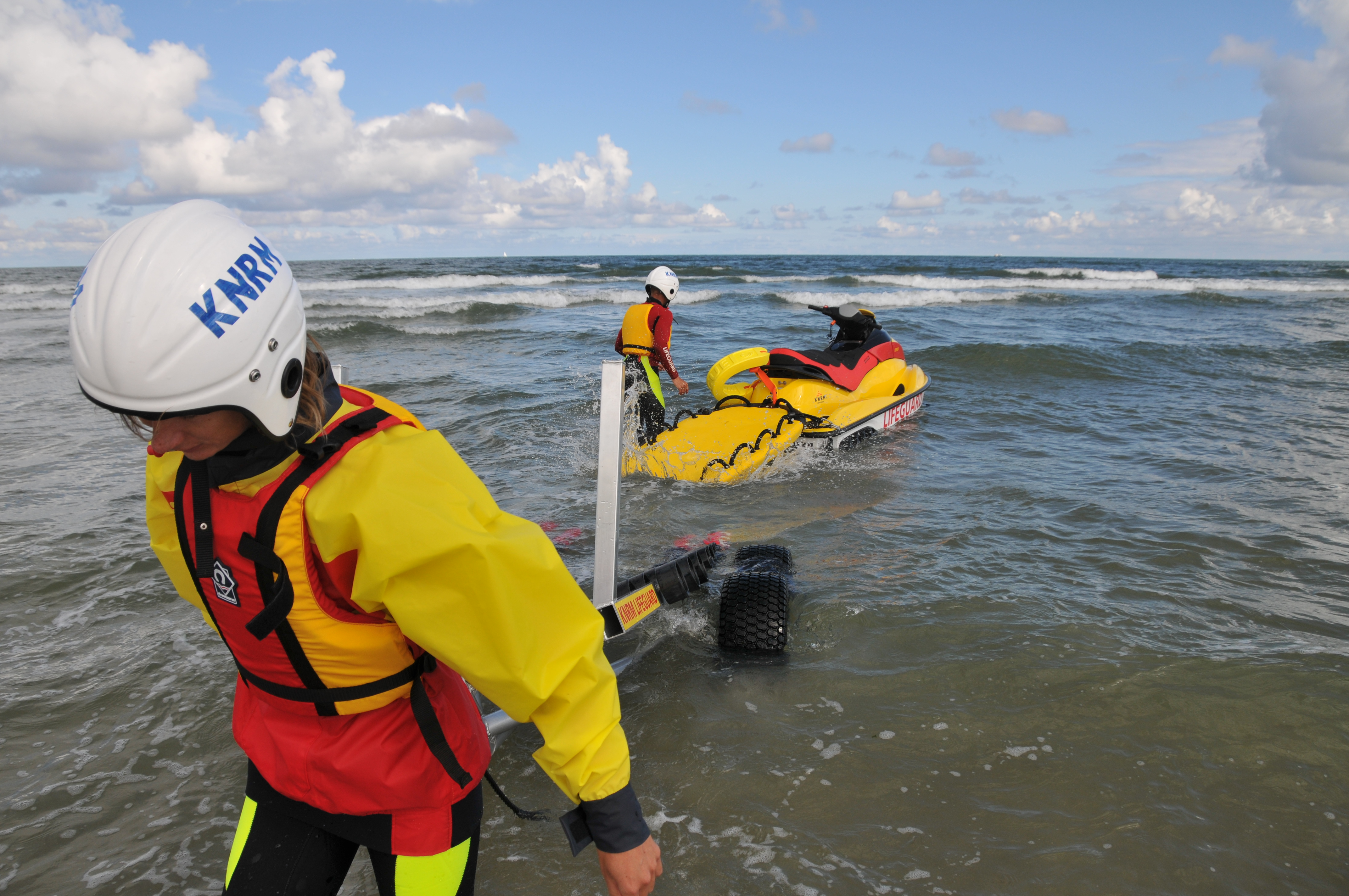 Jetski KNRM lifeguard